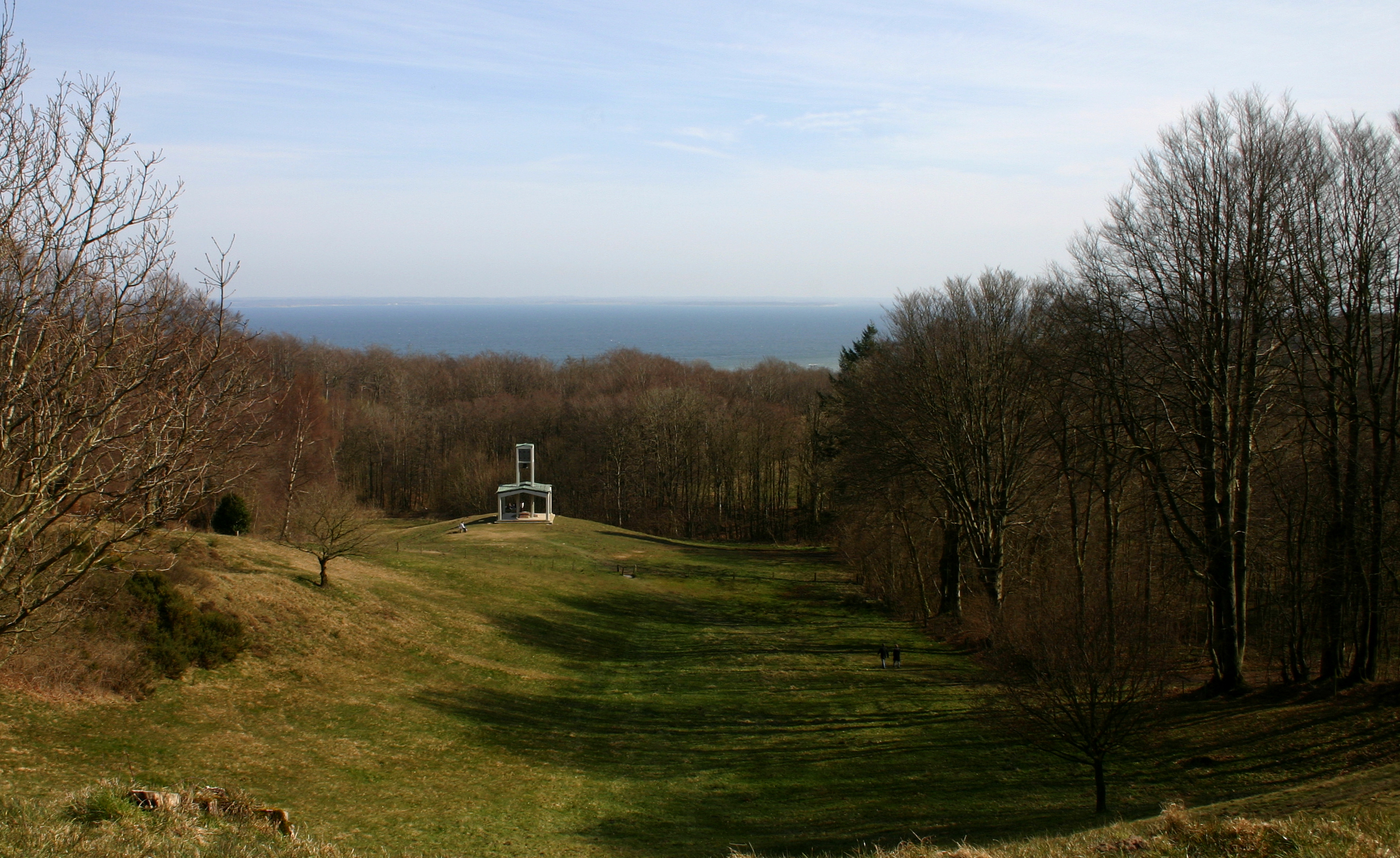 A view towards east with Klokkestabelen.Seen from Skamlingsbanken,near Kolding,Denmark. Udsigt fra Skamlingsbanken ved Kolding, mod øst med Klokkestabelen.